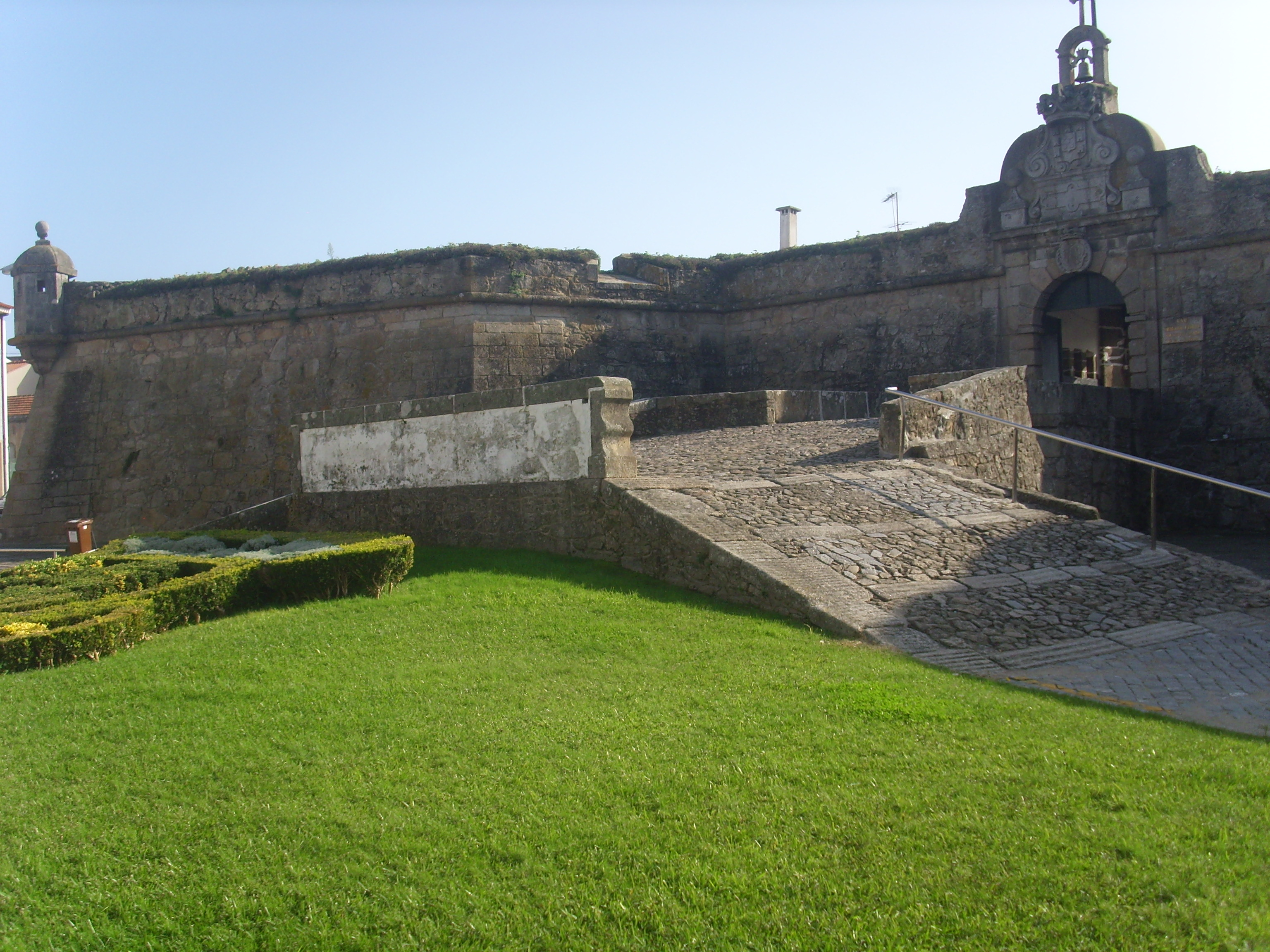 The Gate of Póvoa fortress